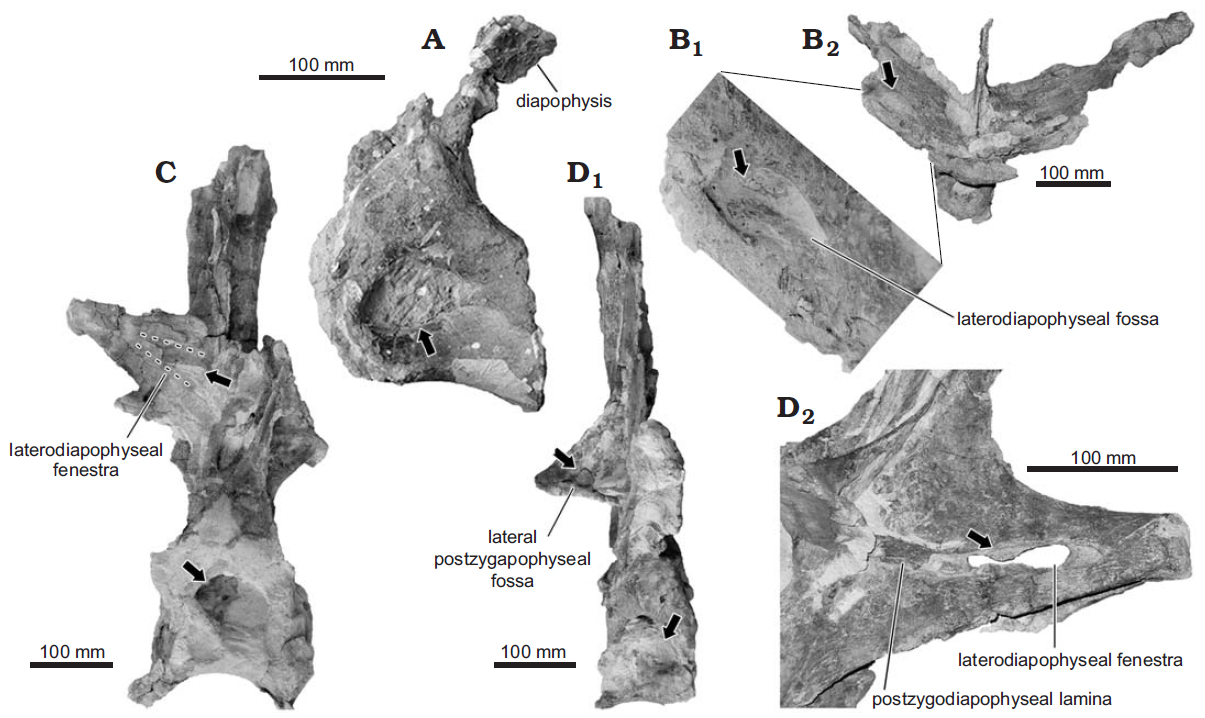 Dorsal vertebrae of the rebbachisaurid sauropod Katepensaurus goicoecheai Ibiricu, Casal, Martínez, Lamanna, Luna, and Salgado, 2013a from the Cenomanian–Turonian Bajo Barreal Formation of Chubut Province, Argentina. A. UNPSJB-PV 1007/13, partial anterior dorsal vertebra in left lateral view. B. UNPSJB-PV 1007/12, partial anterior to middle dorsal vertebra in dorsal view (B2), detail of right laterodiapophyseal fossa in dorsal view (B1). C. UNPSJB-PV 1007/4, middle or posterior dorsal vertebra in right lateral view (dashed lines indicate approximate margins of laterodiapophyseal fenestra). D. UNPSJB-PV 1007/5, middle or posterior dorsal vertebra in right lateral view (D1), detail of right laterodiapophyseal fenestra in right posterolateral view (D2). Arrows indicate hypothesized pneumatic structures.